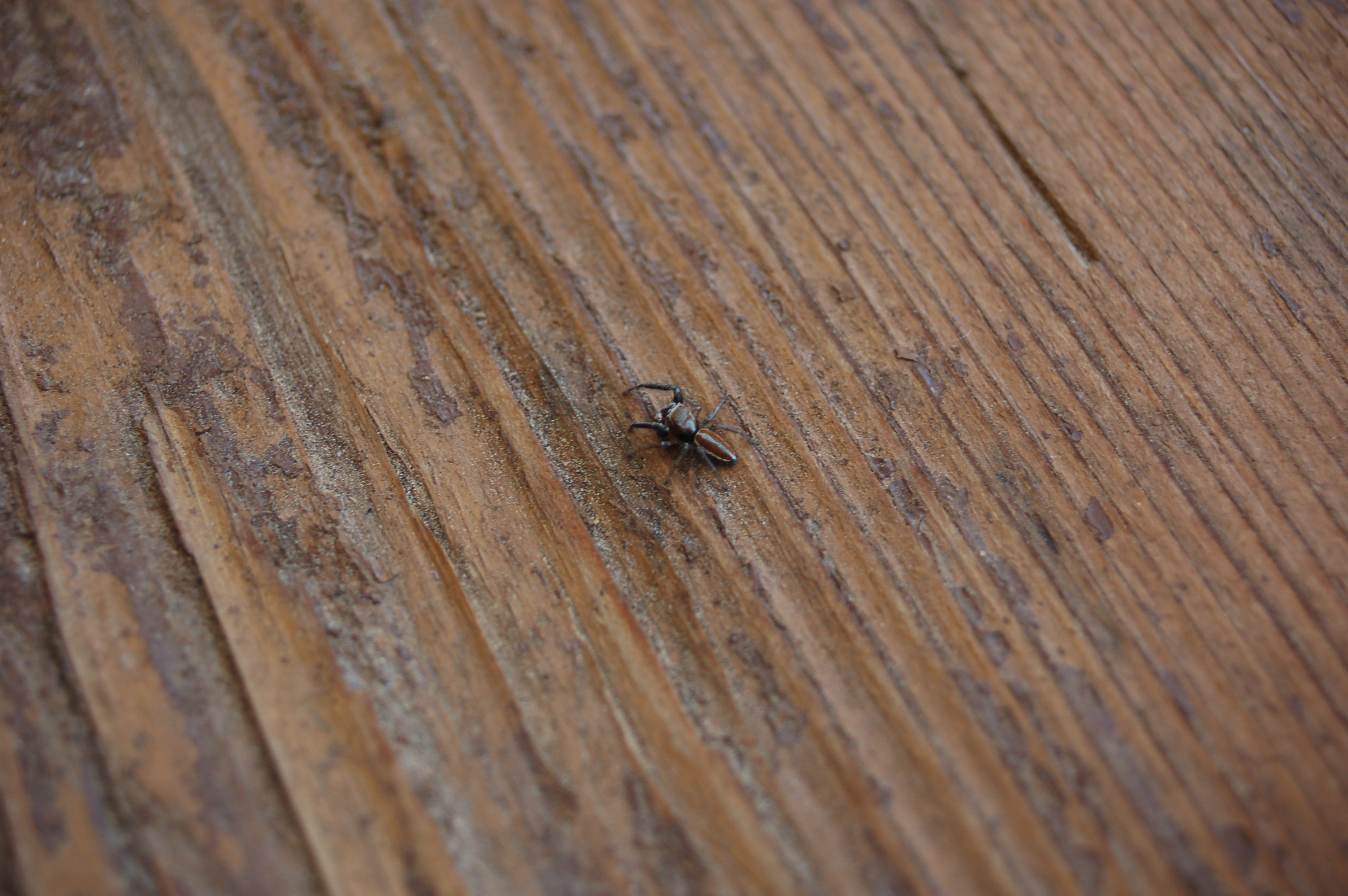 A spider.